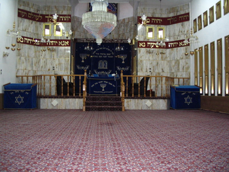 A karait kenessa in the moshav Matzliah